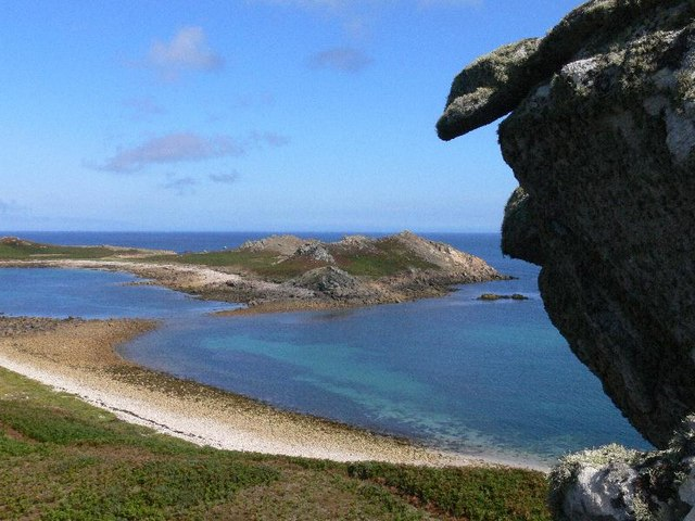 White Island viewed from Top Rock, St Martins, Isles of Scilly White Island is attached to St Martins except at high tide.